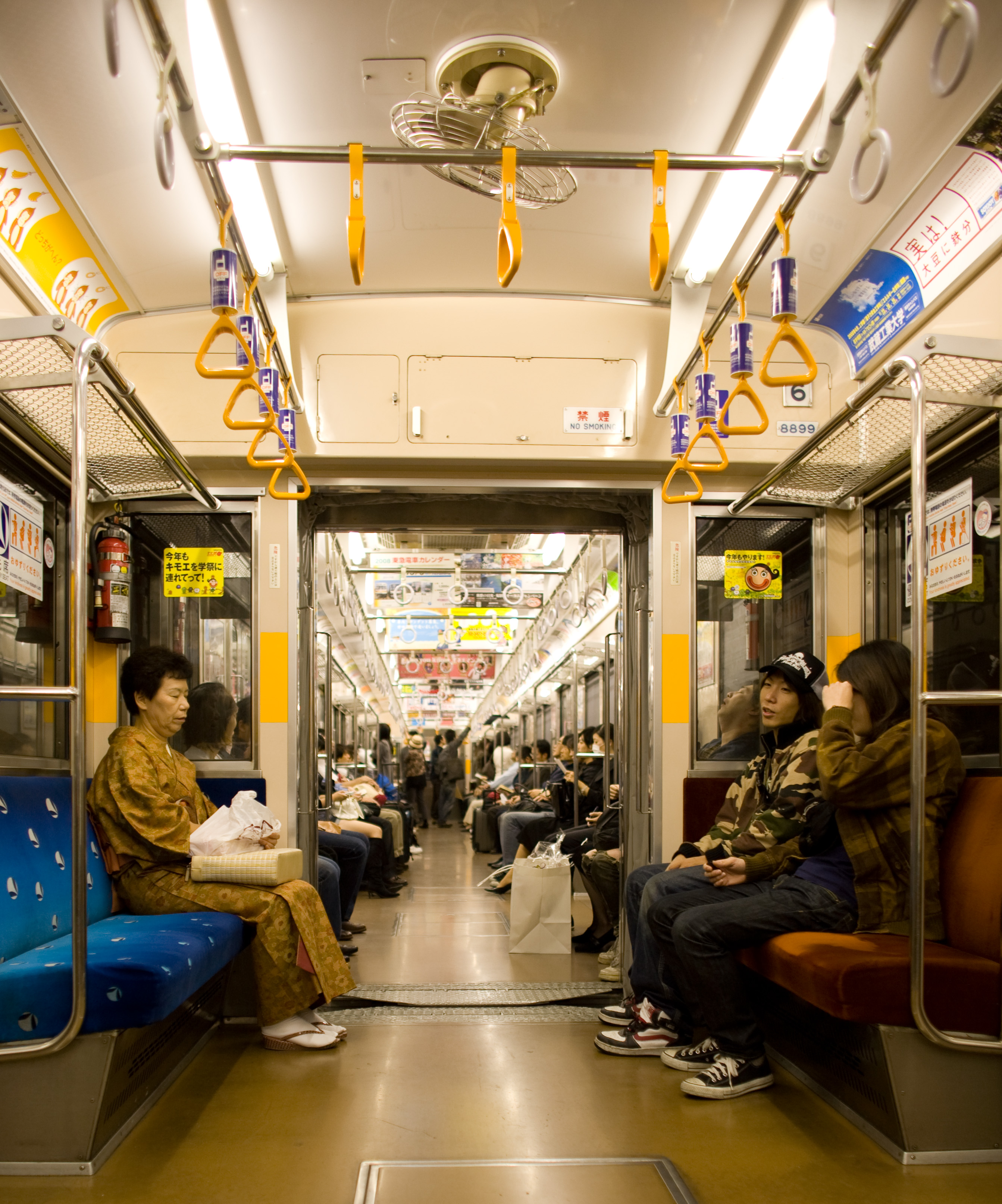 Tokyo subway car with woman in kimono seated to the left and youngster in modern clothes to the right.